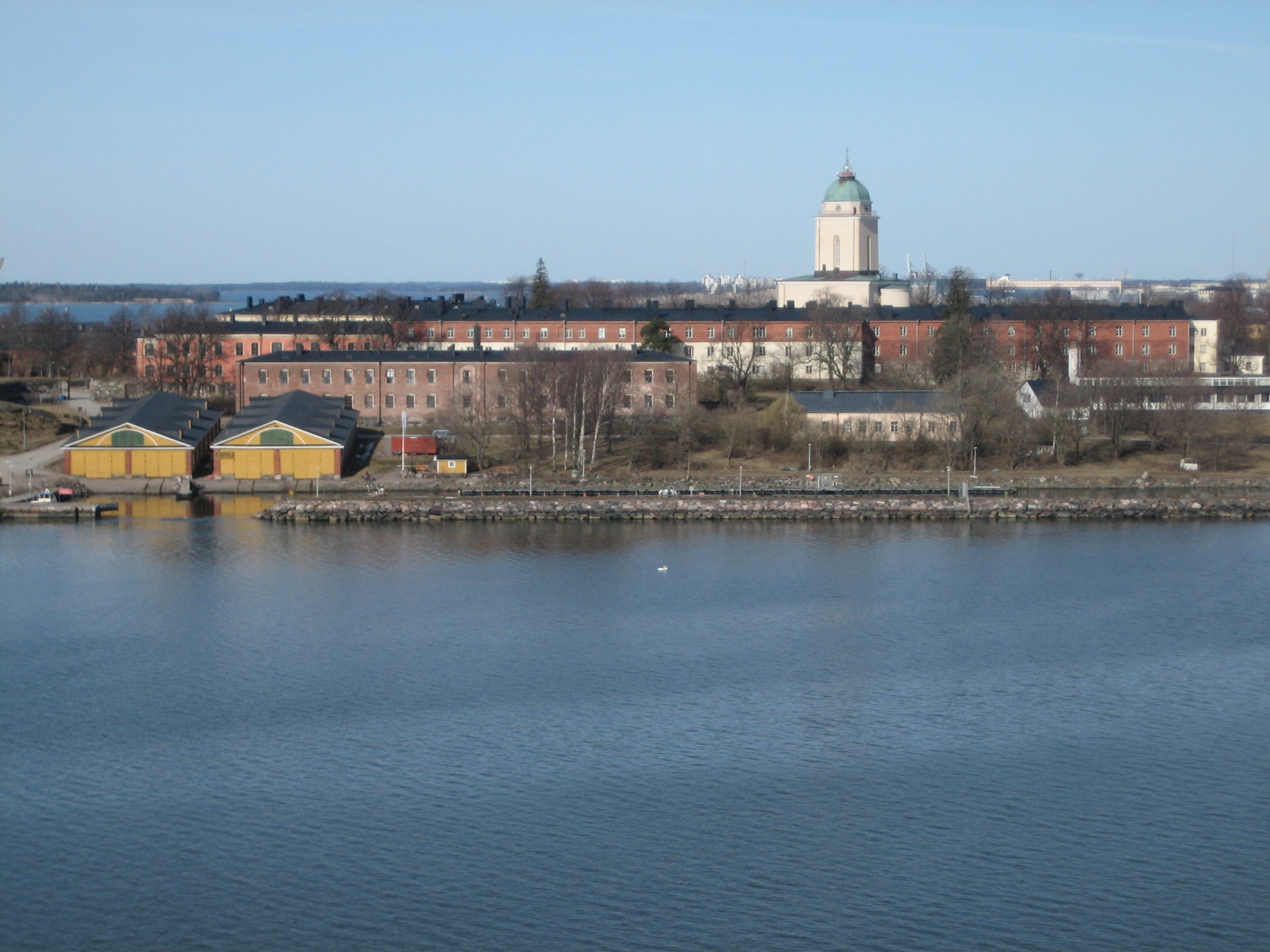 A view to the island of Iso Mustasaari in front of Helsinki. The island belongs to the Suomenlinna fortress complex.